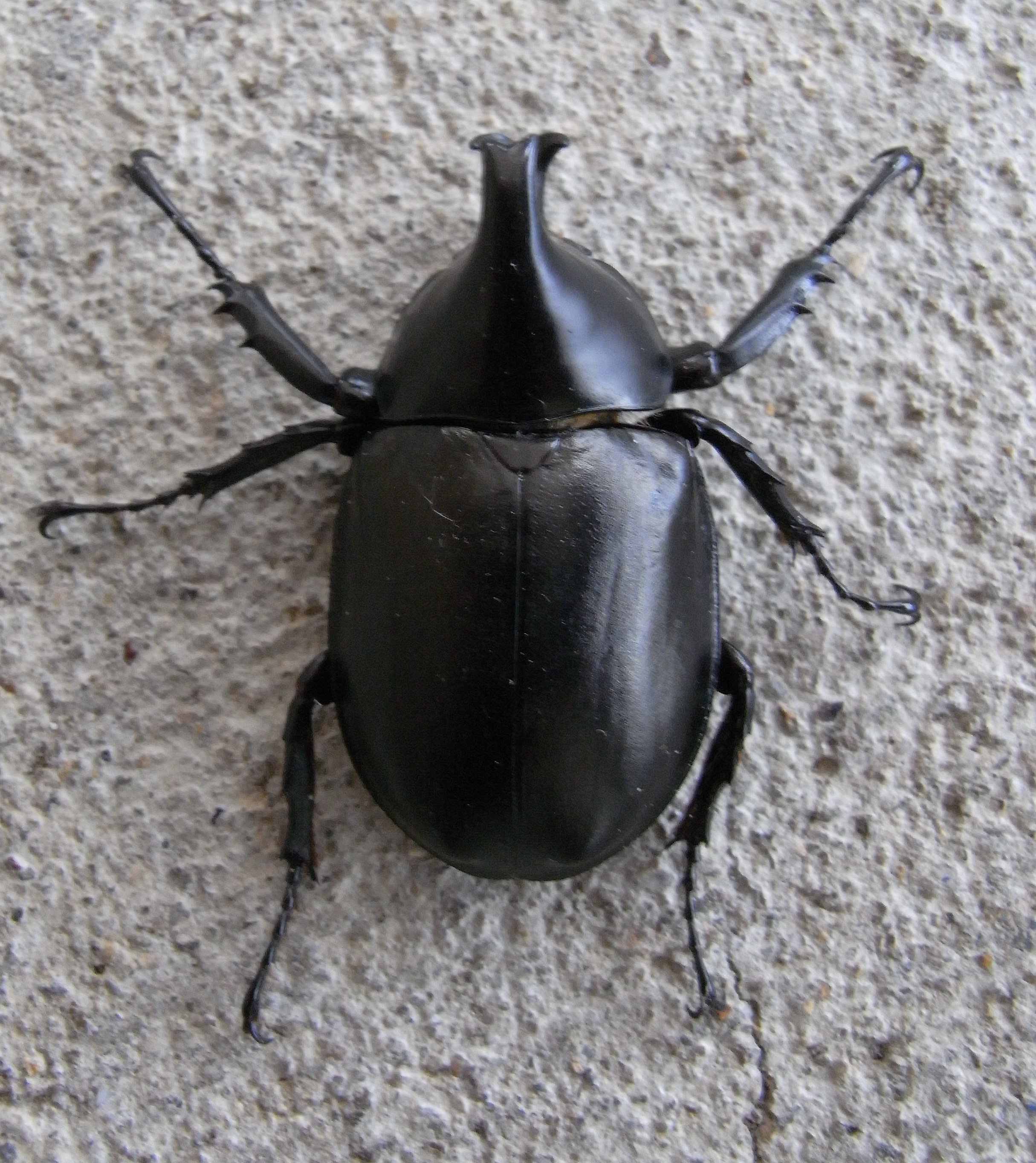 Living Rhinozeros Beetle (Xylotrupes australicus), dorsal view, found on a concrete floor in Canungra, Queensland, Australia.